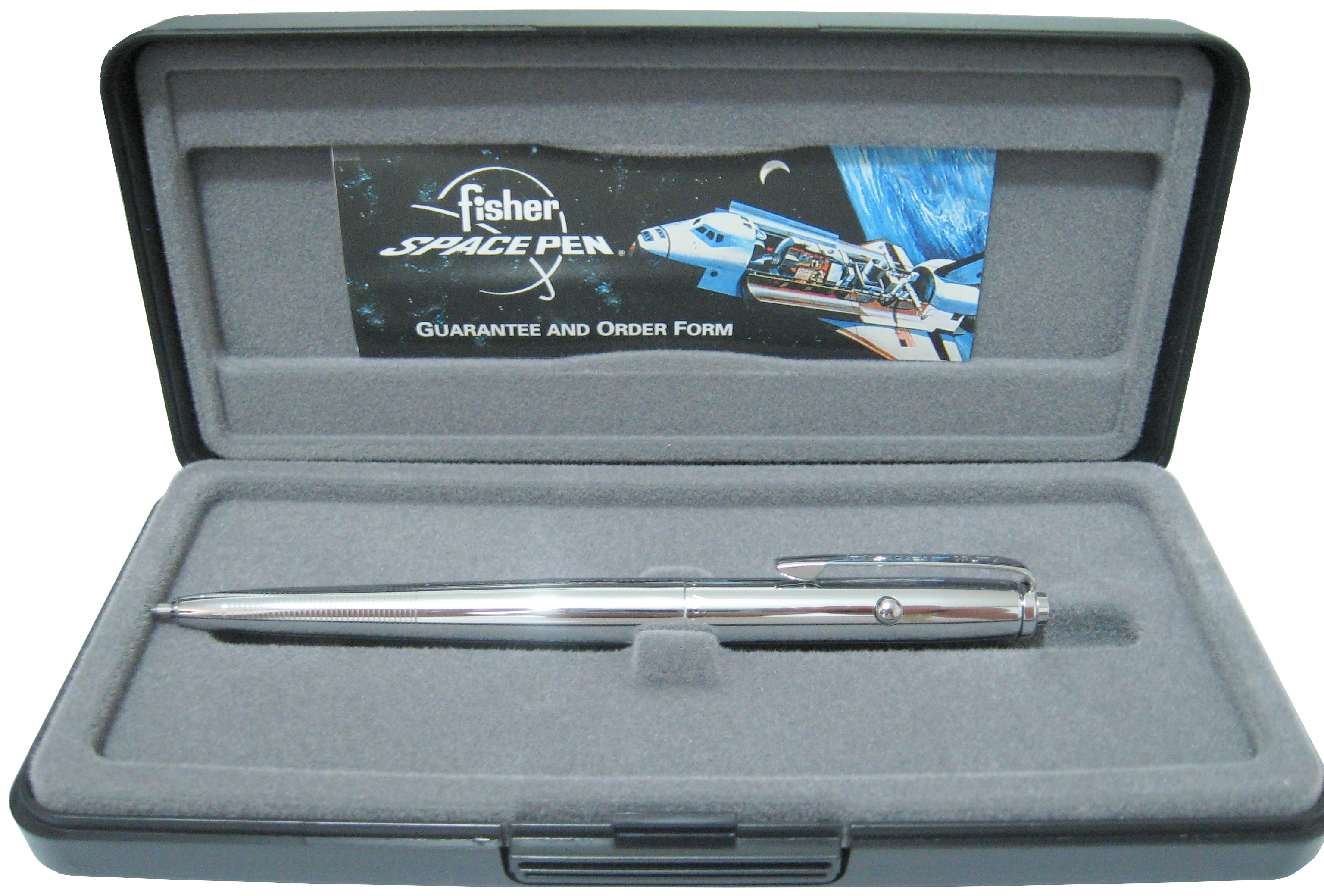 Fisher Space Pen model AG-7 Original Astronauts. This is the pen that was used on Apollo 11 mission.